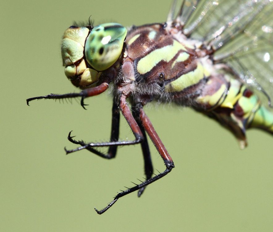 Stream Hawker Pinheyschna subpupillata; male head and thorax. Cedara, KwaZulu-Natal, South Africa.